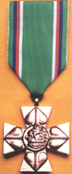 Cross of Merit of the Minister of Defence of the Czech Republic 1st Class